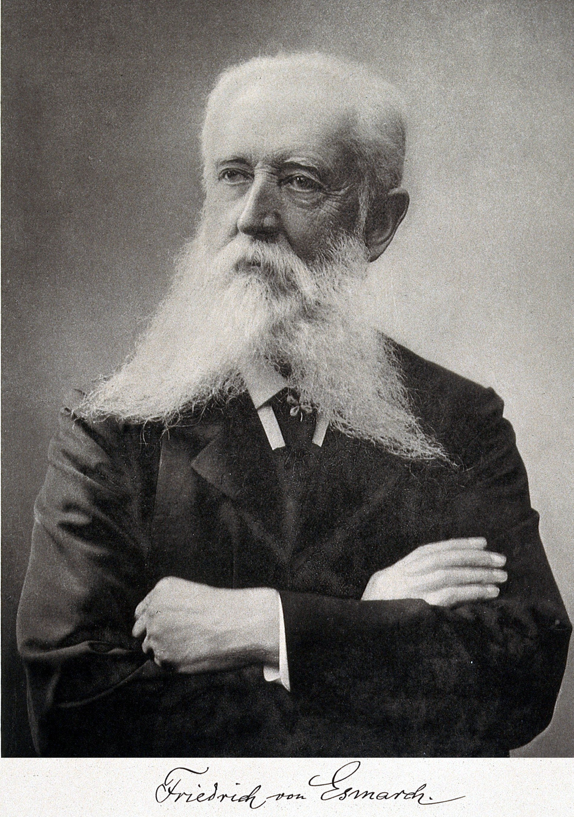 Johann Friedrich August von Esmarch. Photogravure. Iconographic Collections Keywords: portrait prints